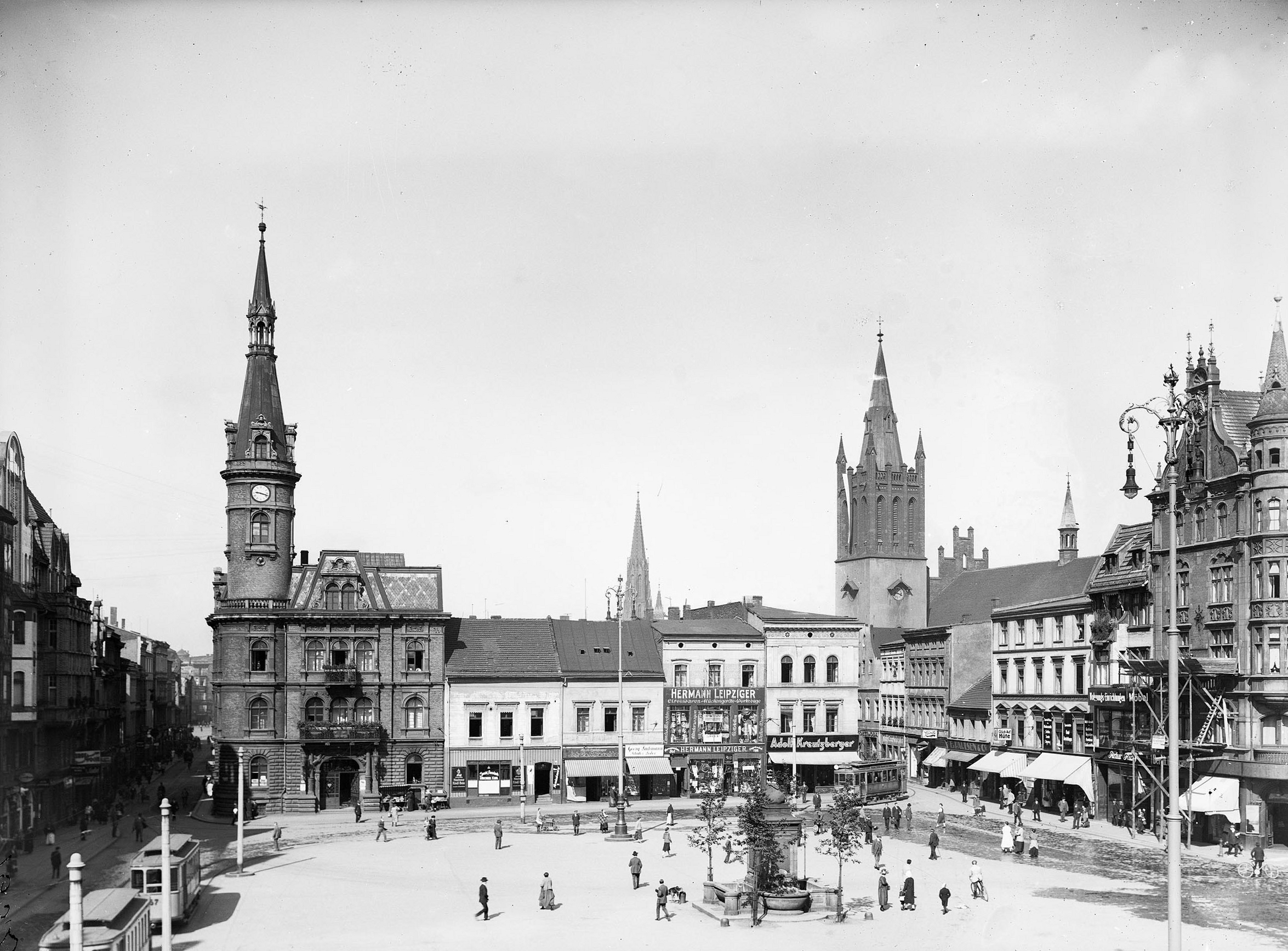 dasddsadada